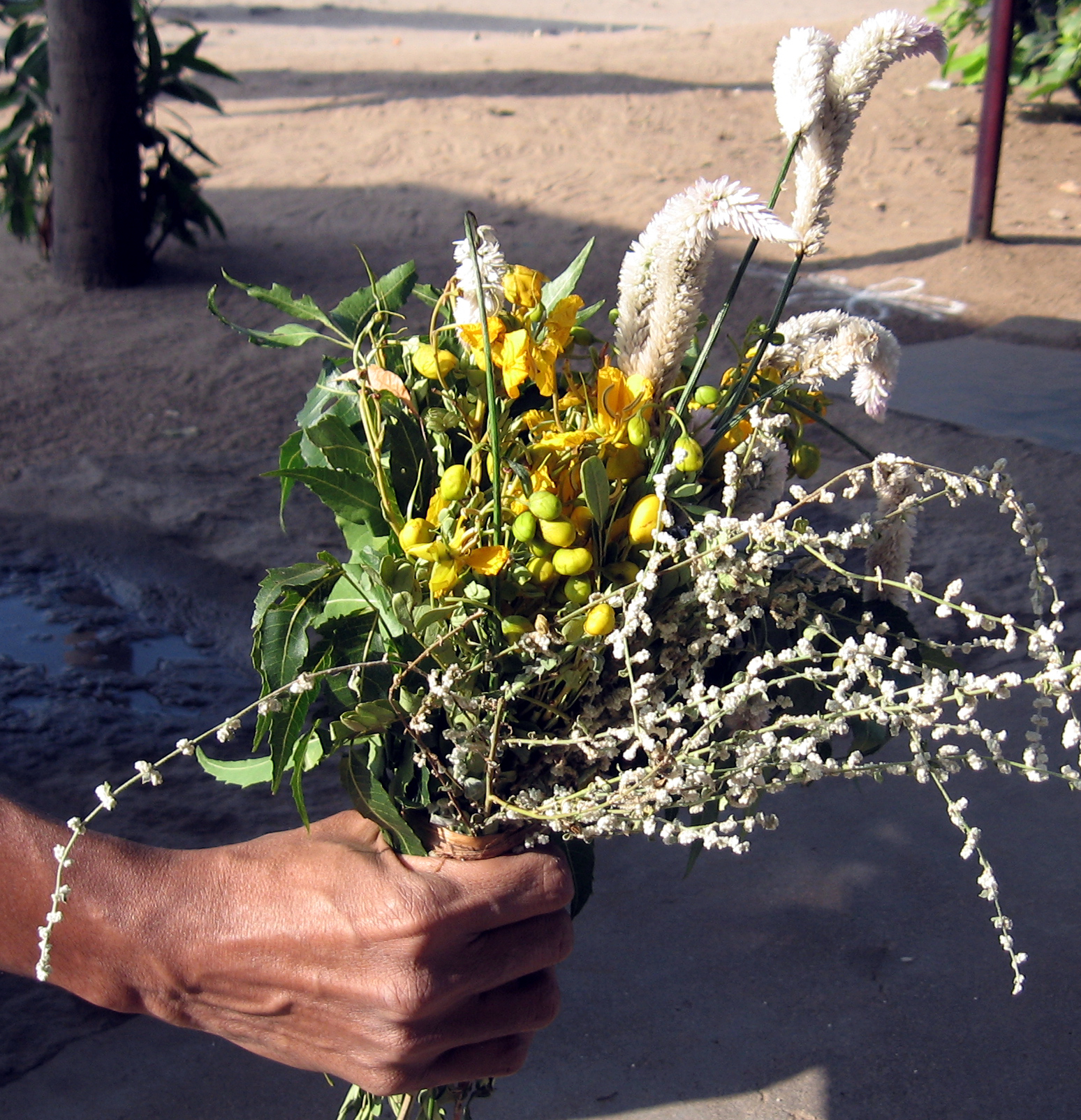 the harvest day festival (namely 'Pongal = பொங்கல்') flower. this usage is one of the custom followed in Tamilnadu state, India